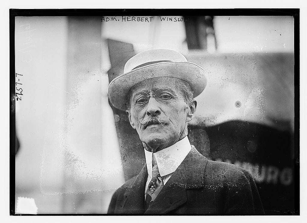 Bain News Service,, publisher. Adm. Herbert Winslow [no date recorded on caption card] 1 negative : glass ; 5 x 7 in. or smaller. Notes: Title from unverified data provided by the Bain News Service on the negatives or caption cards. Forms part of: George Grantham Bain Collection (Library of Congress). Format: Glass negatives. Repository: Library of Congress, Prints and Photographs Division, Washington, D.C. 20540 USA, General information about the Bain Collection is available at Persistent URL: Call Number: LC-B2- 2757-7